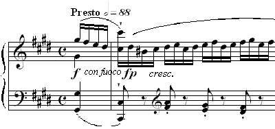 Excerpt from Chopin's Etude Op.10 No.4